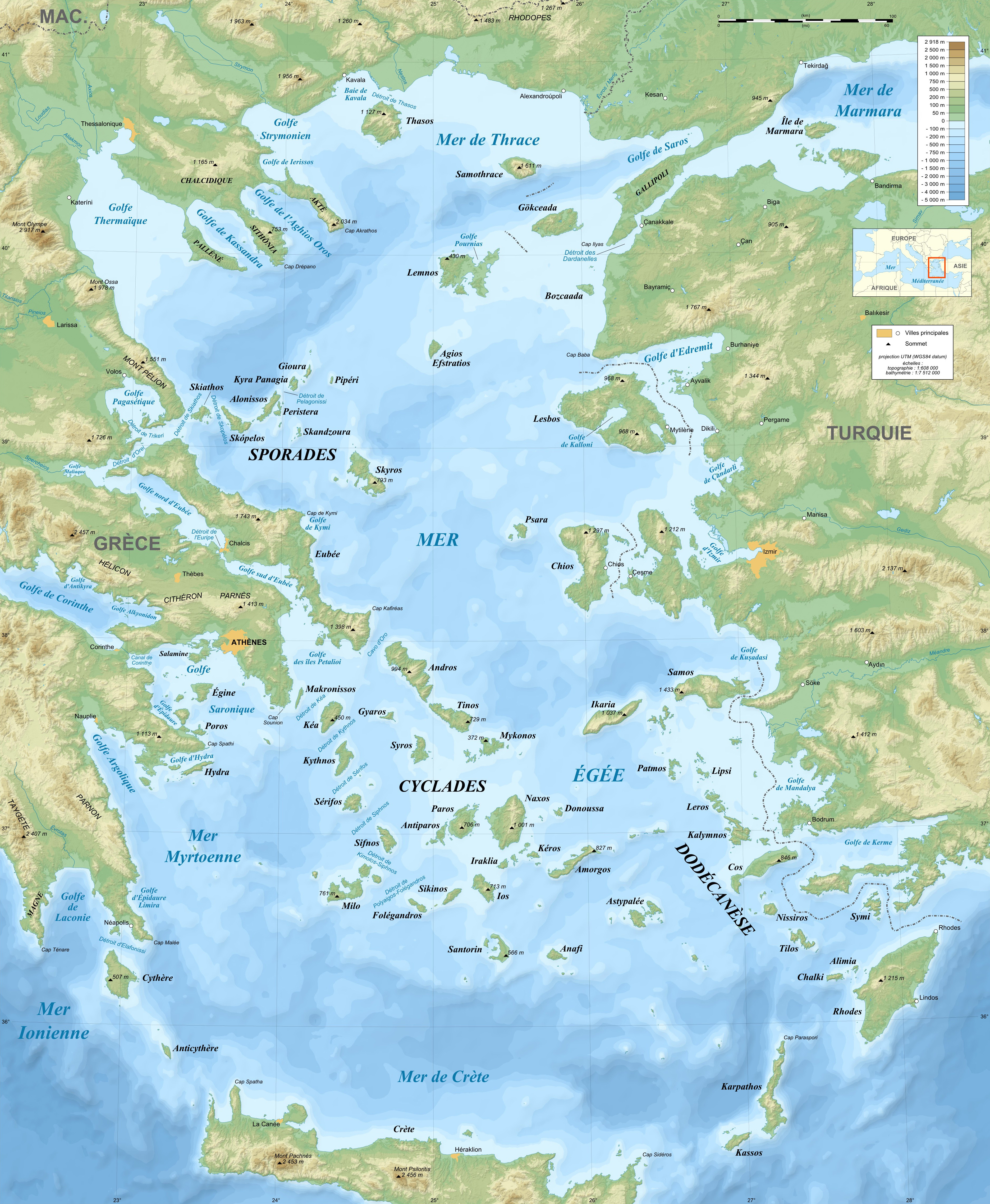 Bathymetric map in French of the Aegean Sea, Mediterranean Sea.